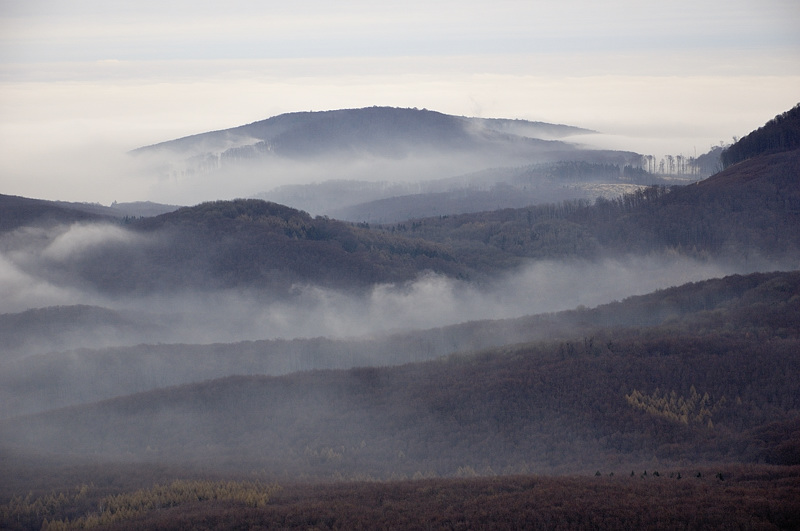 Fog over the Little Carpathians